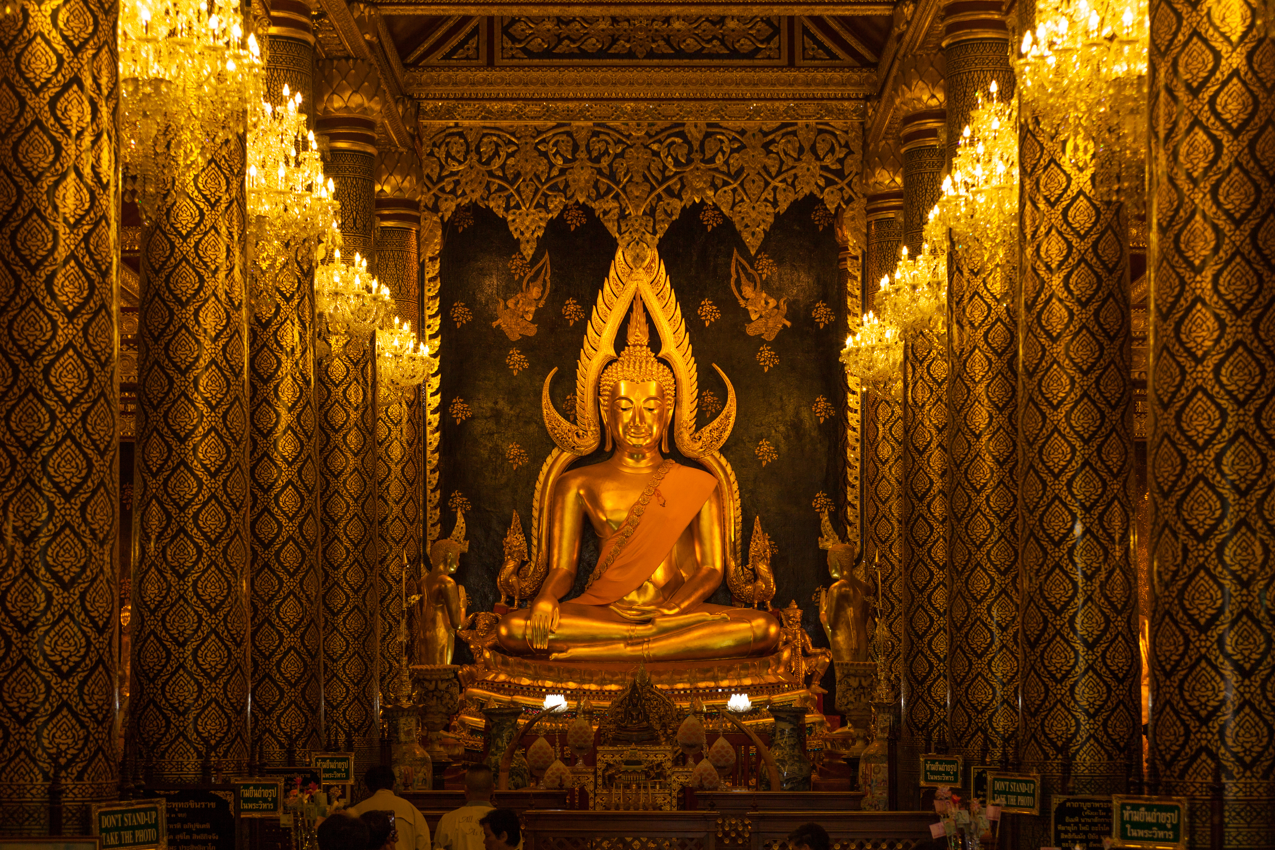 Phra Phuttha Chinnarat at Wat Phra Si Rattana Mahathat, Phitsanulok Province, Thailand.